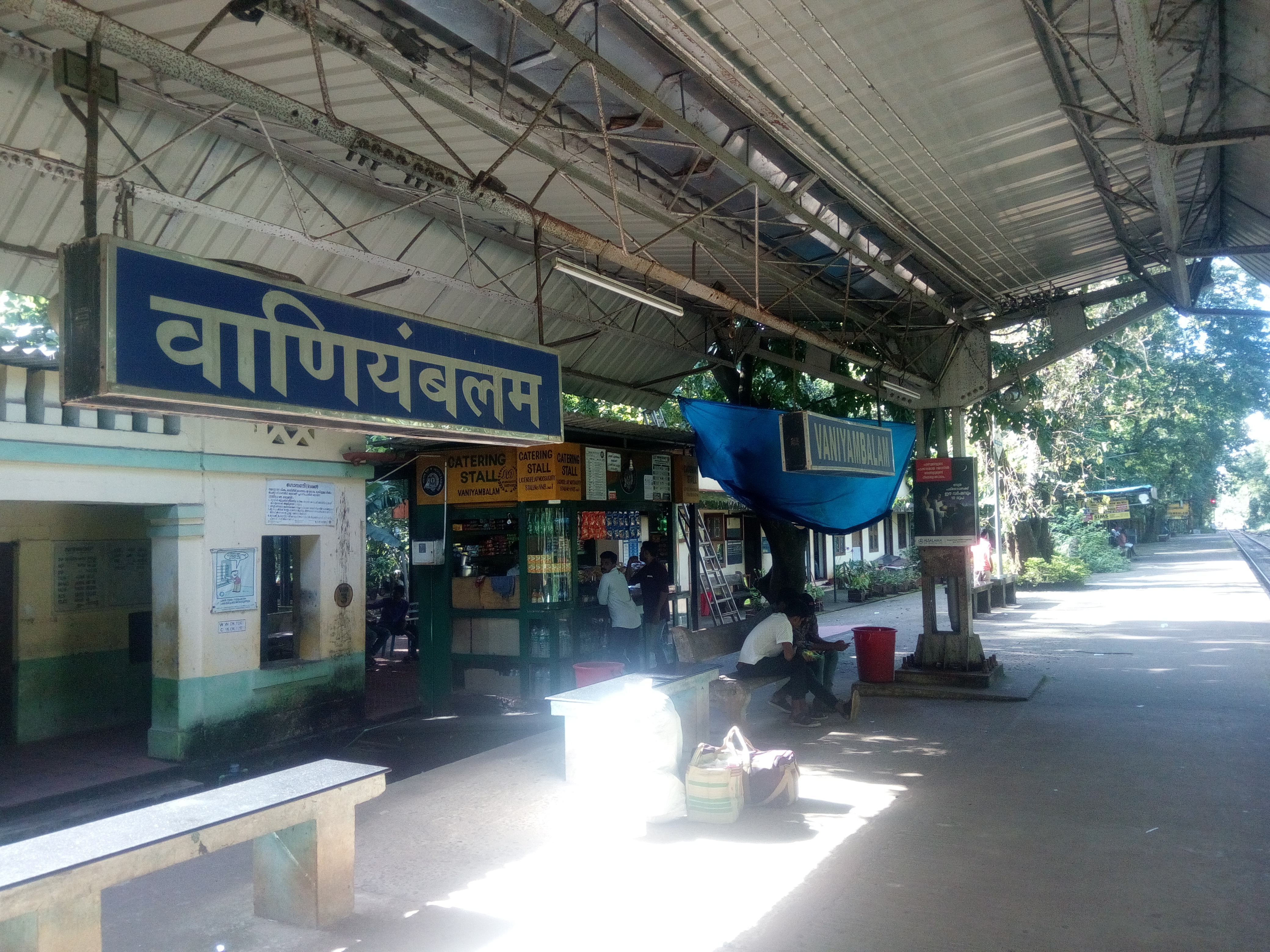 Vaniyambalam railway station is a station in Nilambur- shornur route.